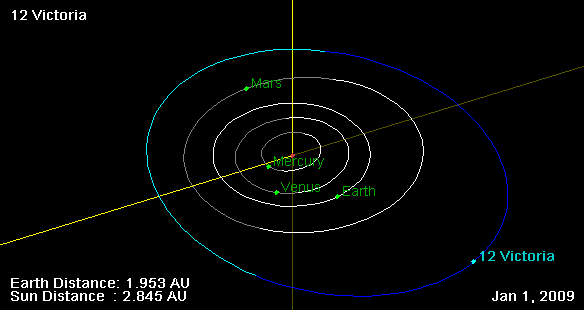 12 Victoria orbit, and his position on 01 Jan 2009 (NASA Orbit Viewer applet)